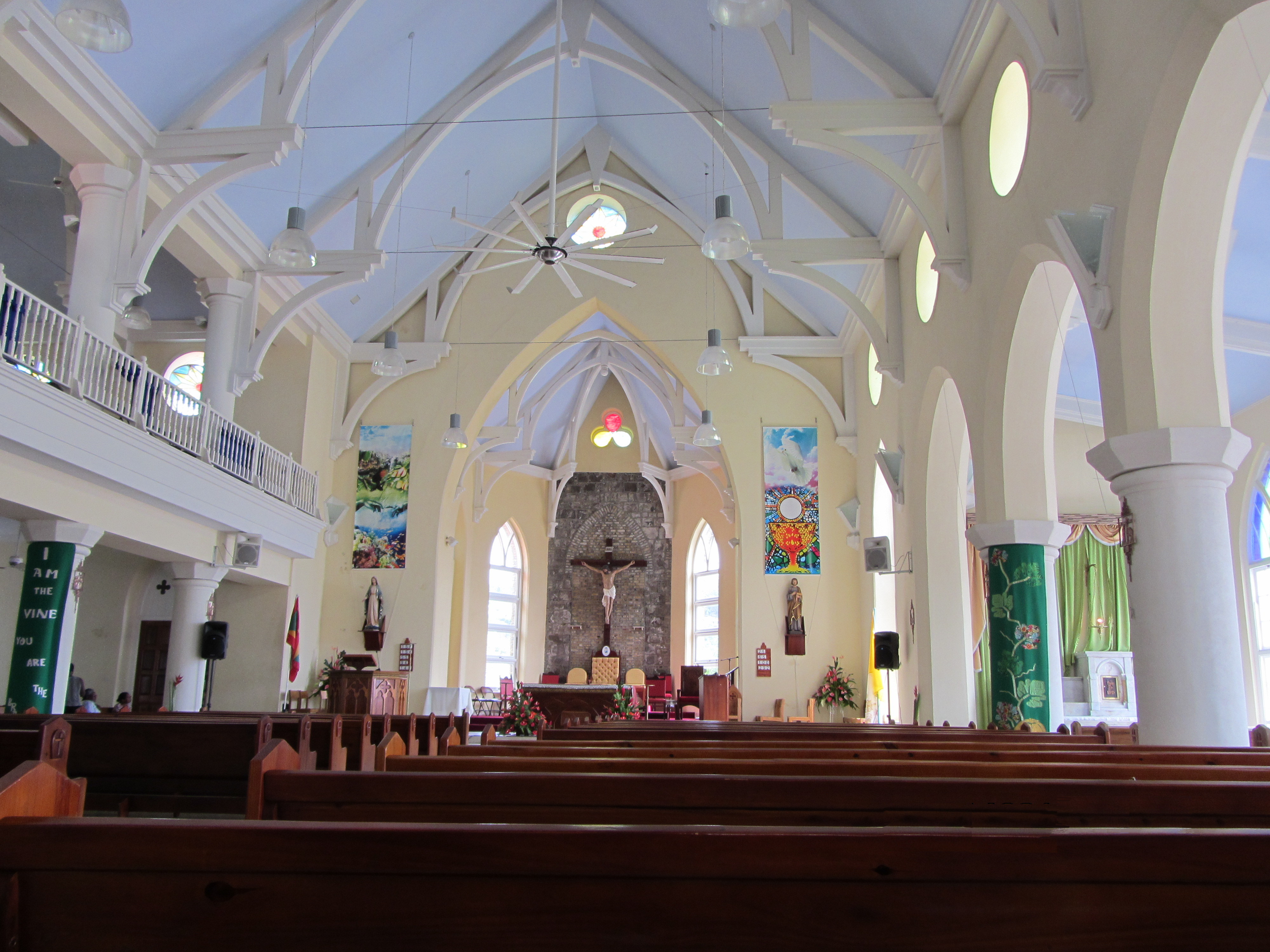 The interior of Cathedral of the Immaculate Conception in Grenada